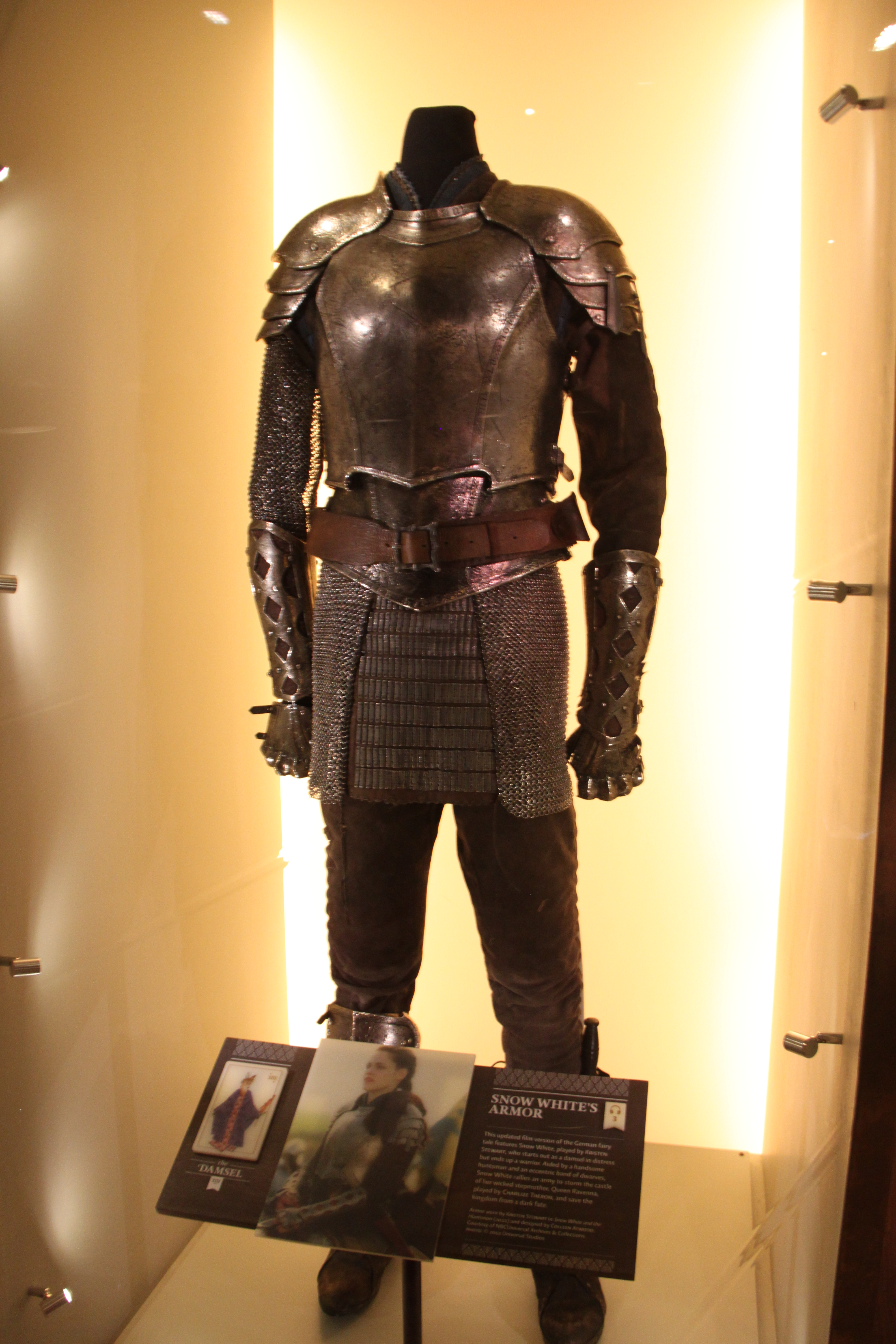 displayed at Fantasy: Worlds of Myth and Magic, Experience Music Project/Science Fiction Hall of Fame, Seattle.